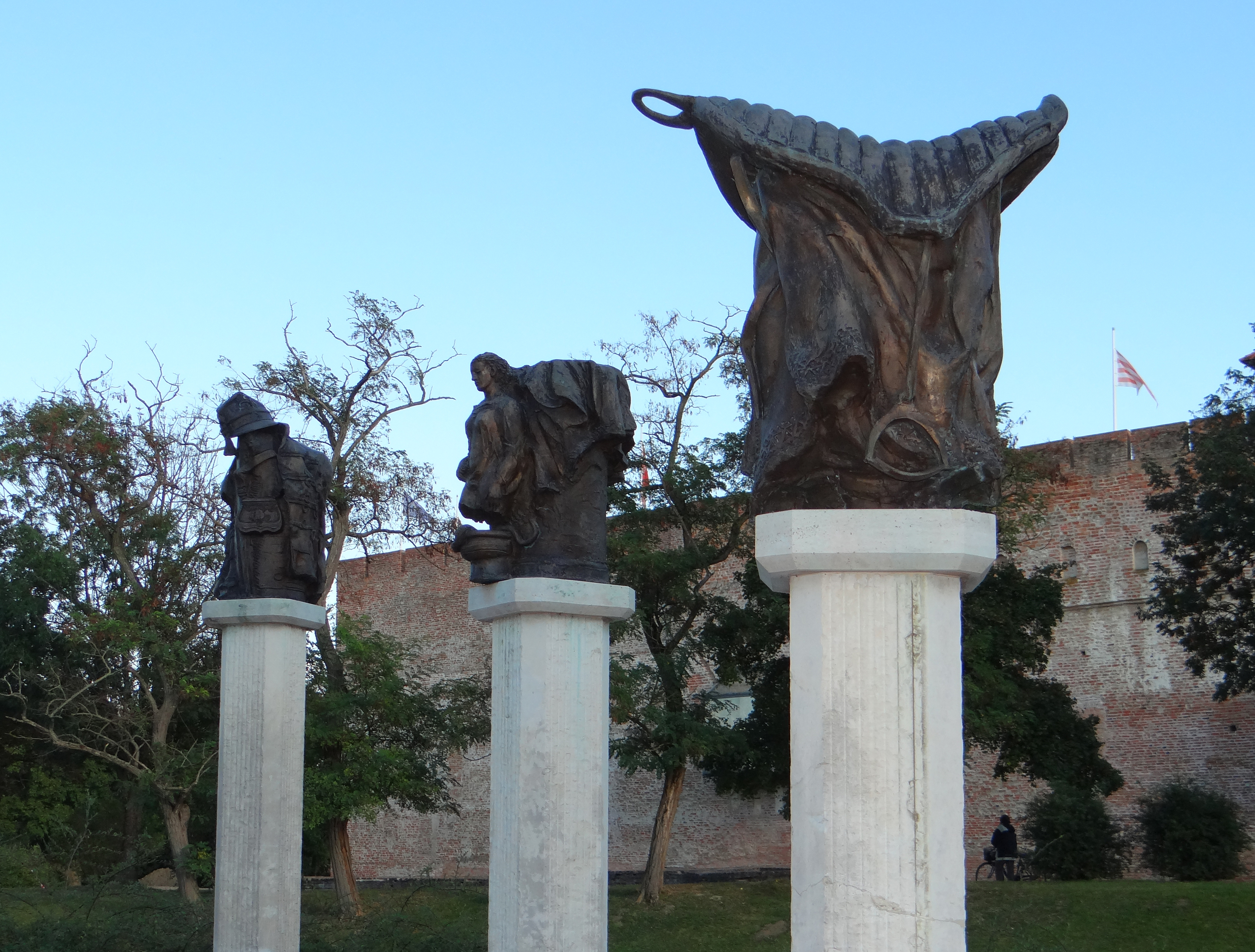 István Máté: Monument of soldier officers 1848–49 (1989). Castle garden, Gyula.